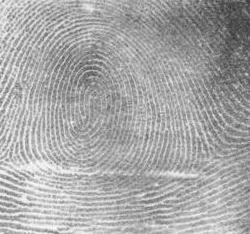 Picture of a whorl fingerprint pattern